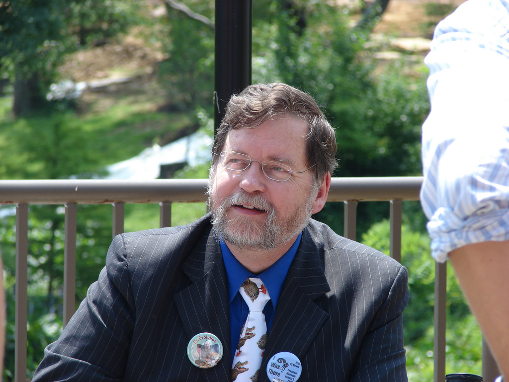 PZ Myers. "This photo was taken of PZ while he was visiting Ken Ham's creation museum on August 7, 2009. At the time the picture was taken he was sitting outside on the terrace giving an interview." (description from the author)